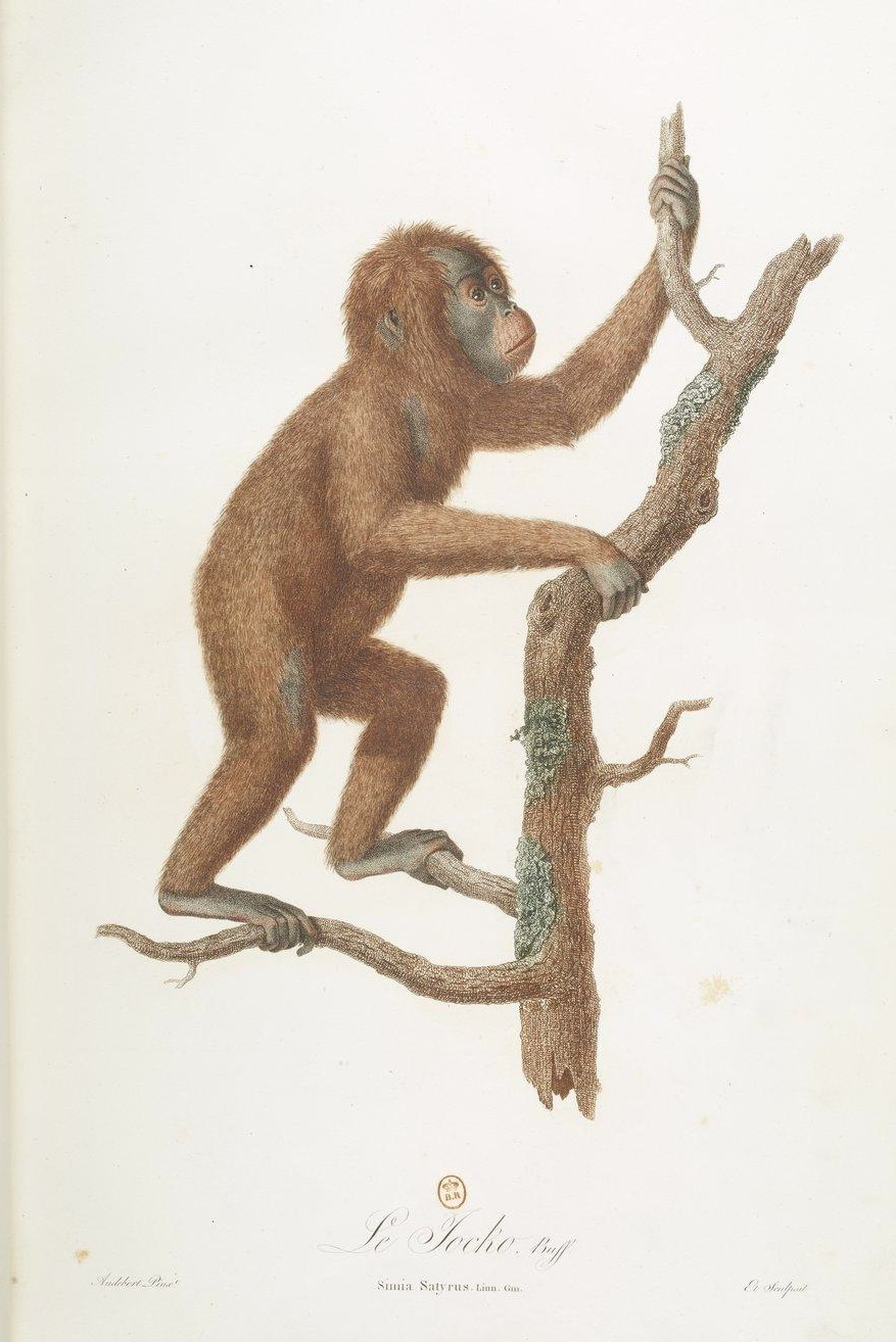 Histoire naturelle des singes et des makis